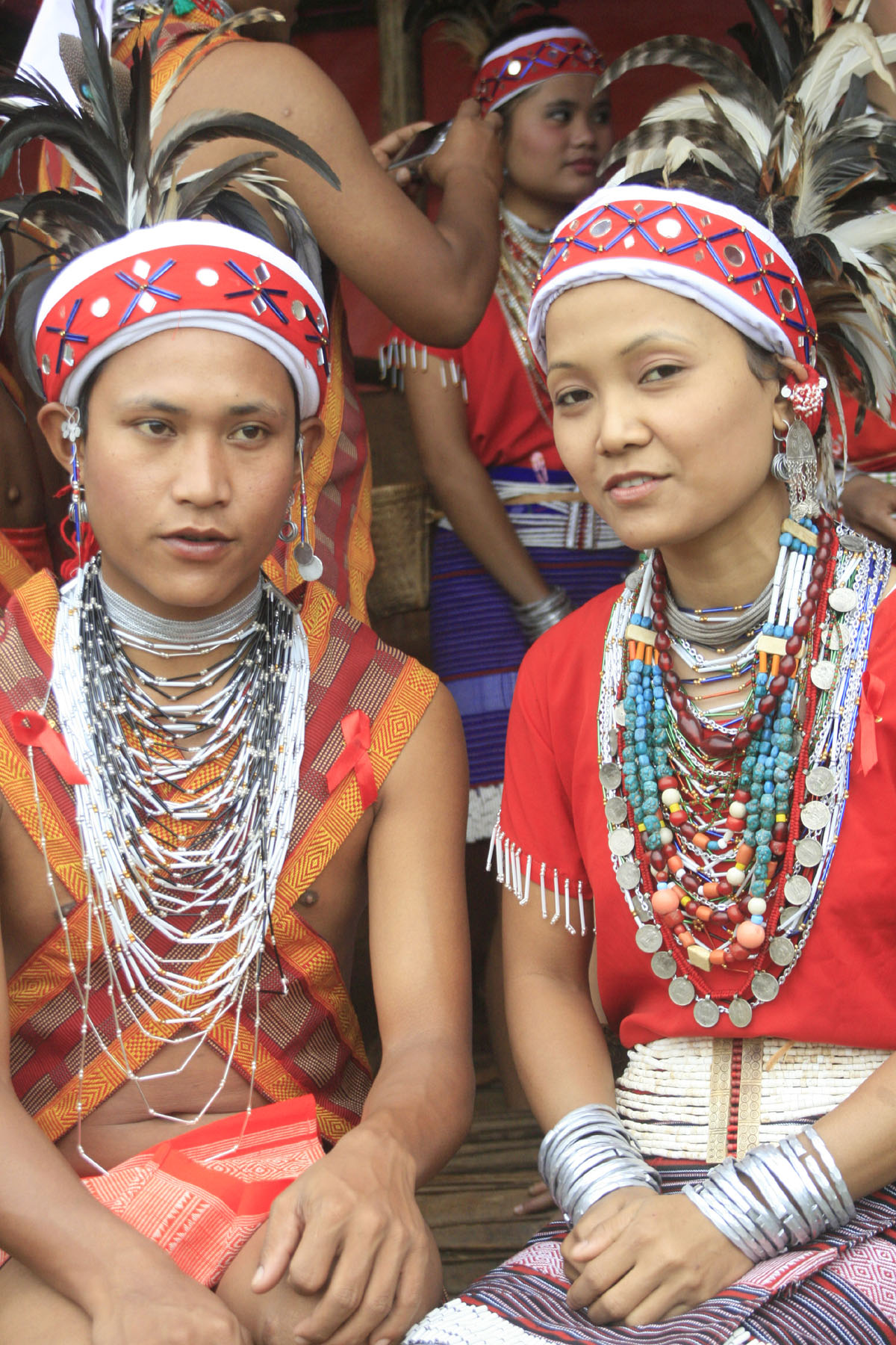 Indian Garo Treble Boy and girls with there Traditional Dress .